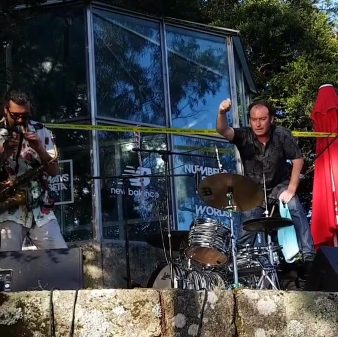 Luis Alberto Rodríguez Legido na illa de San Simón